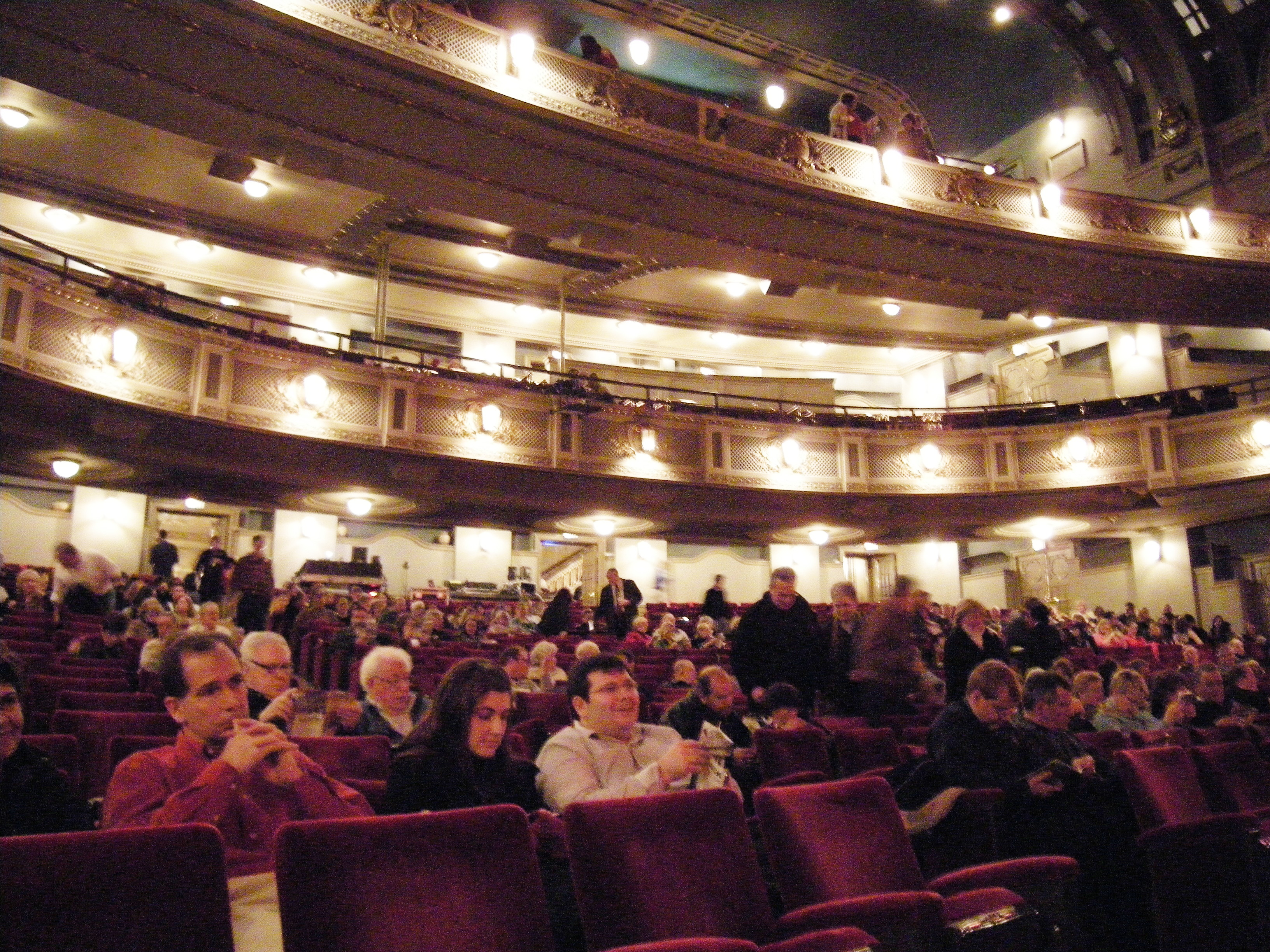 Interior, Majestic Theatre, Dallas, Texas.